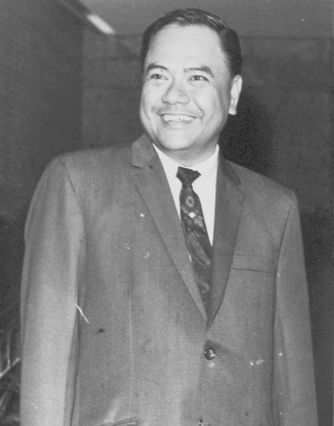 Former Minister of Labor of the Philippines Blas Ople